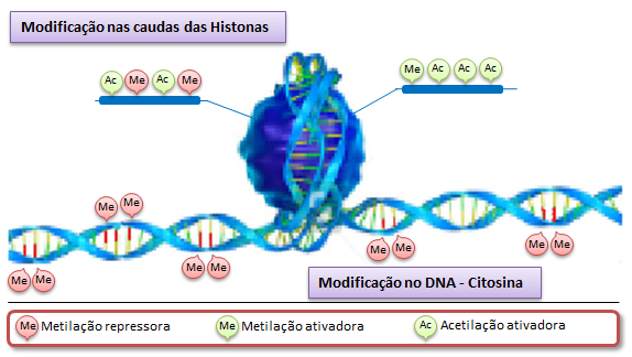 This image shows possible epigenetics modifications on DNA, such as DNA methylation at CpG sites, and modification on histone tails, such as acetylation and methylation